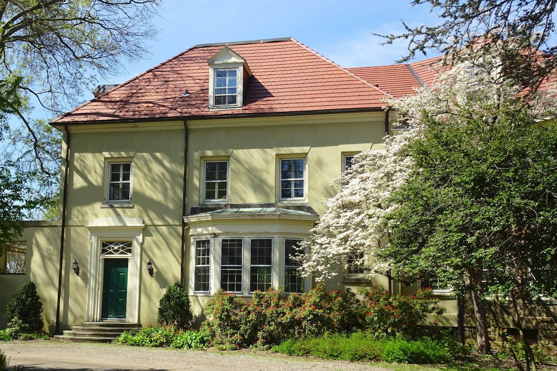 Main house at the Cross Estate Gardens in Bernardsville, NJ.